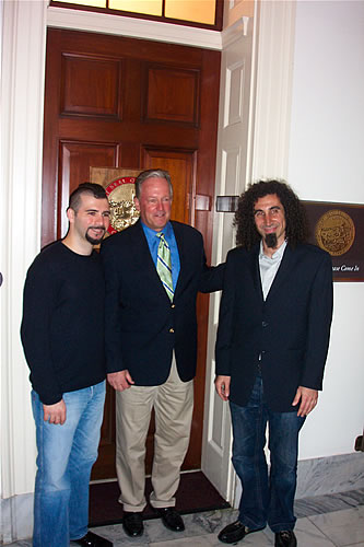 Congressman George Radanovich discusses the Armenian Genocide with System of a Down members, Serj Tankian, lead singer and John Dolmayan, drummer. (April 25 2006)